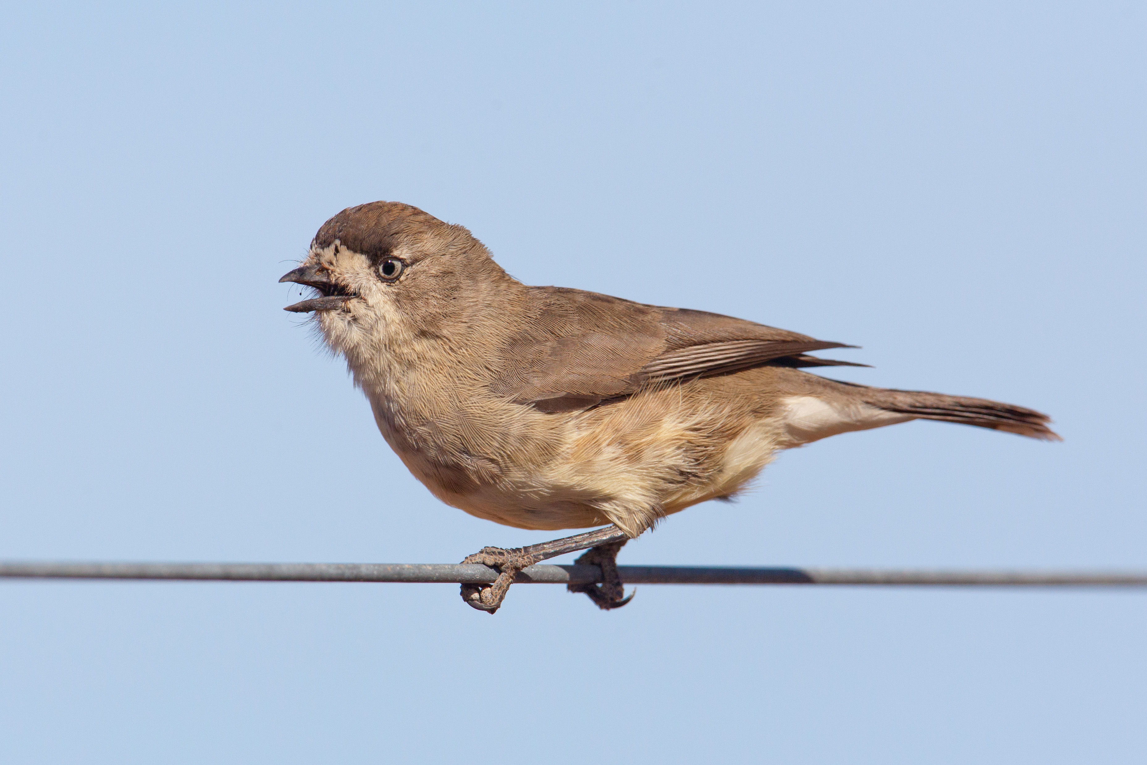 I came across a small flock of these rather bland looking birds while making a long over due visit to Stockyard Plain Disposal basin reserve. I would have preferred a more natural looking perch but this little fellow was rather agitated by my "squeaking" and preferred to chastise me from the fenceline.